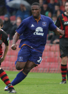 Victor Anichebe of Everton (28) defends against Bohemians FC. This file has been extracted from another file: Bohemians V Everton (19 of 51).jpg